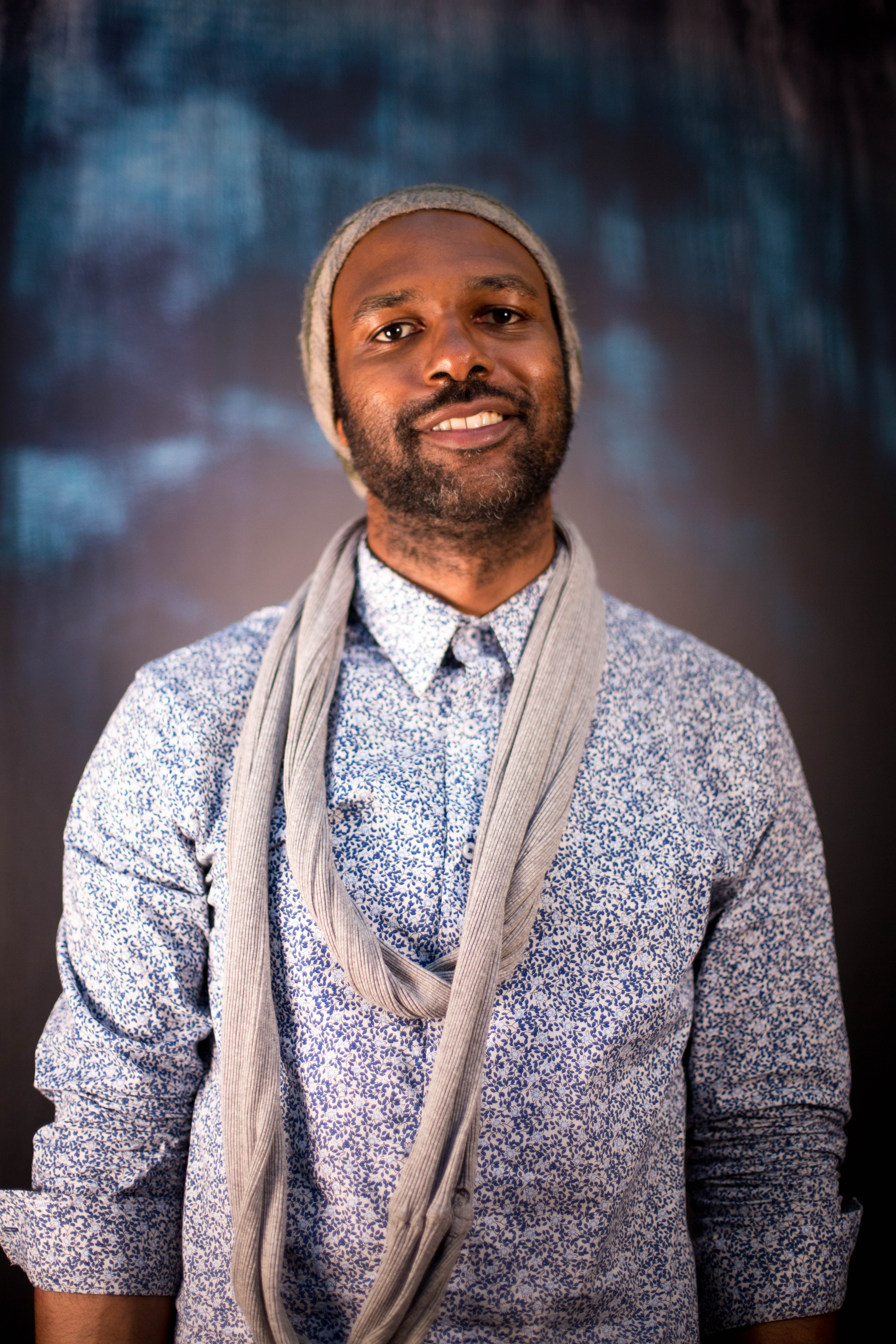 Portrait of Junius Paul at the Museum of Contemporary Art Chicago on June 19th, 2018.